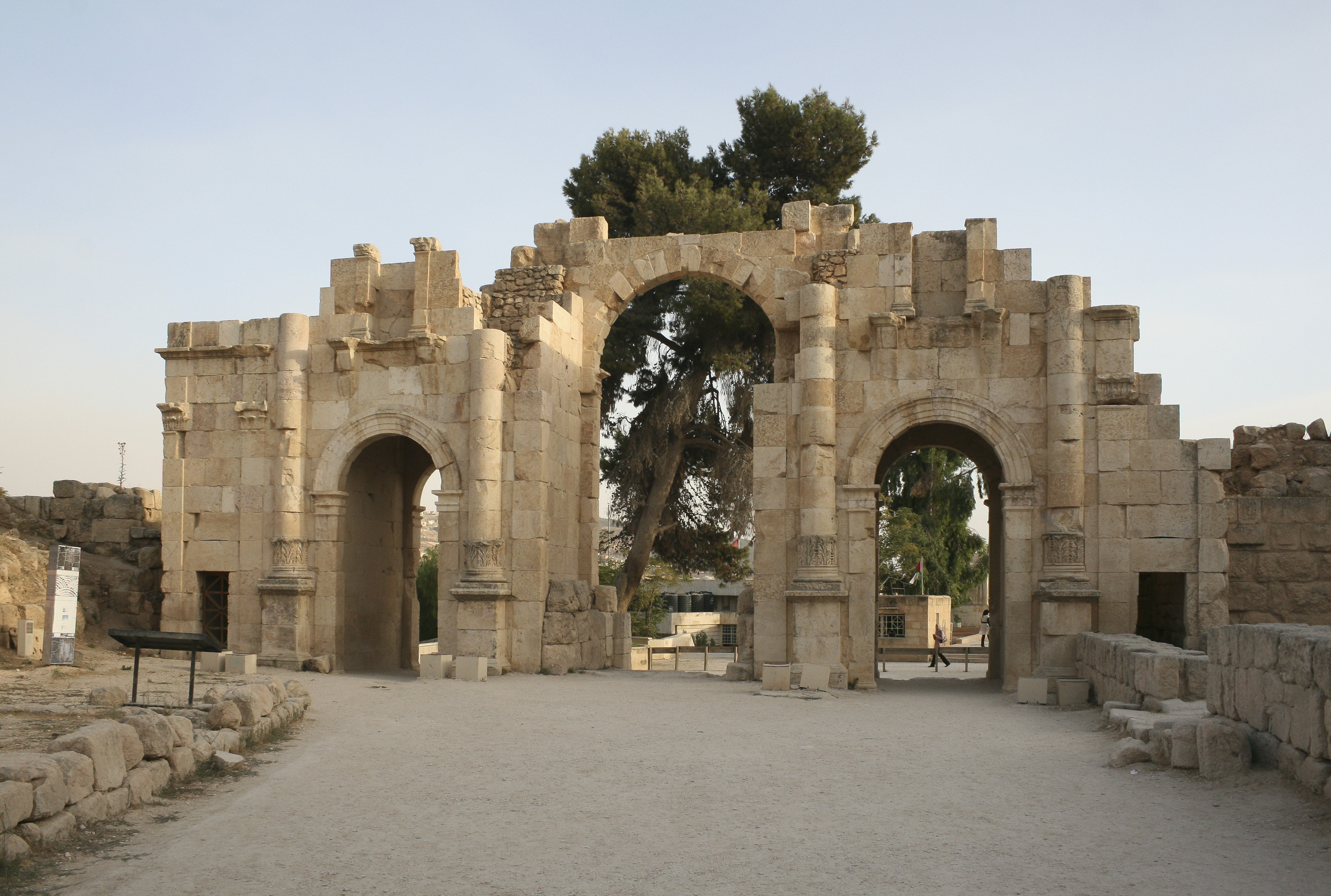 South Gate, Jerash, Jordan